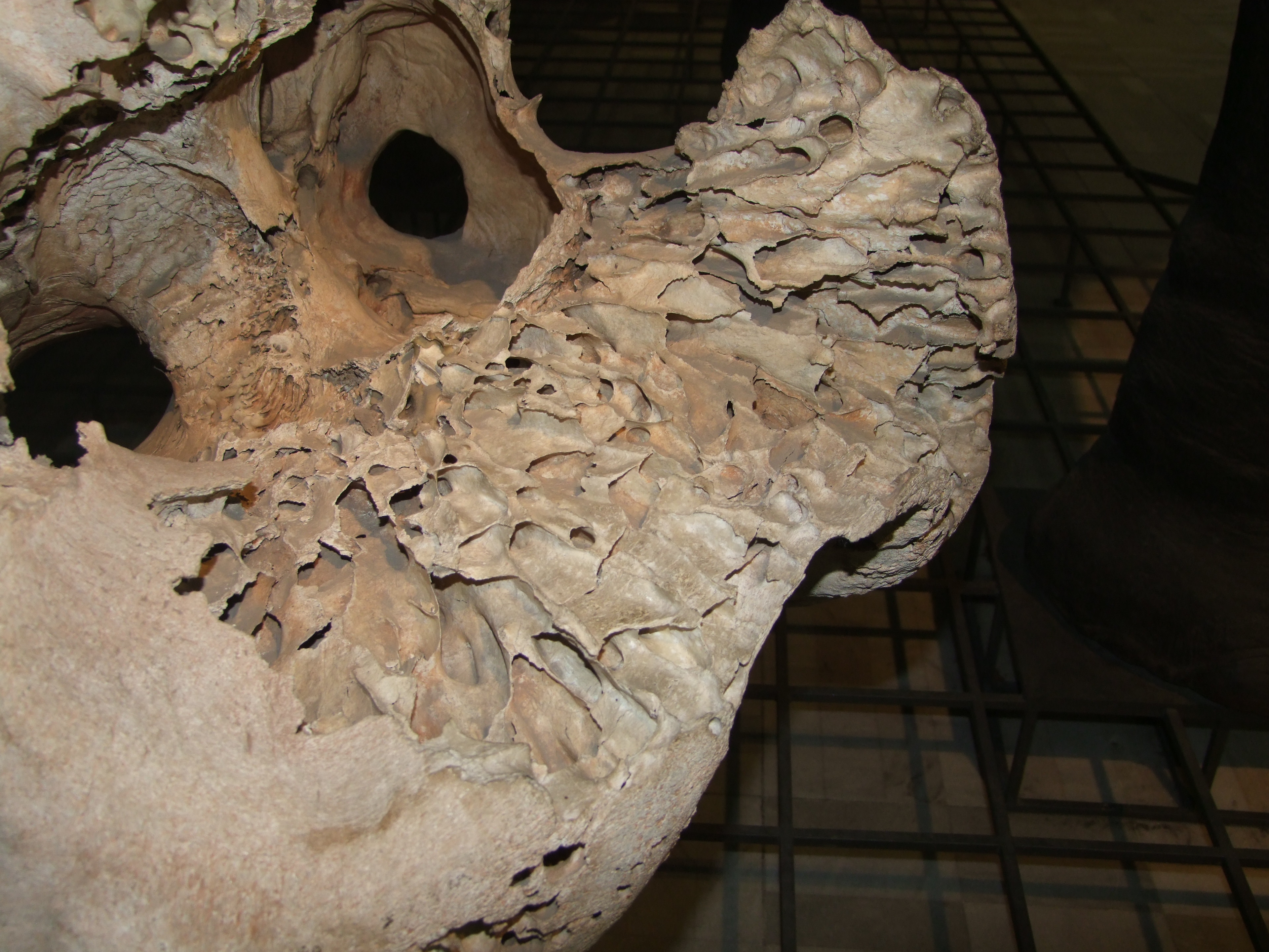 Skull of an elephant with visible pneumatized bony caverns; photographed in the Senckenberg natural history Museum, Frankfurt/Main